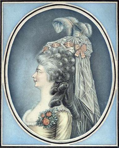 Portrait of Louise Contat (1760-1813), French actress